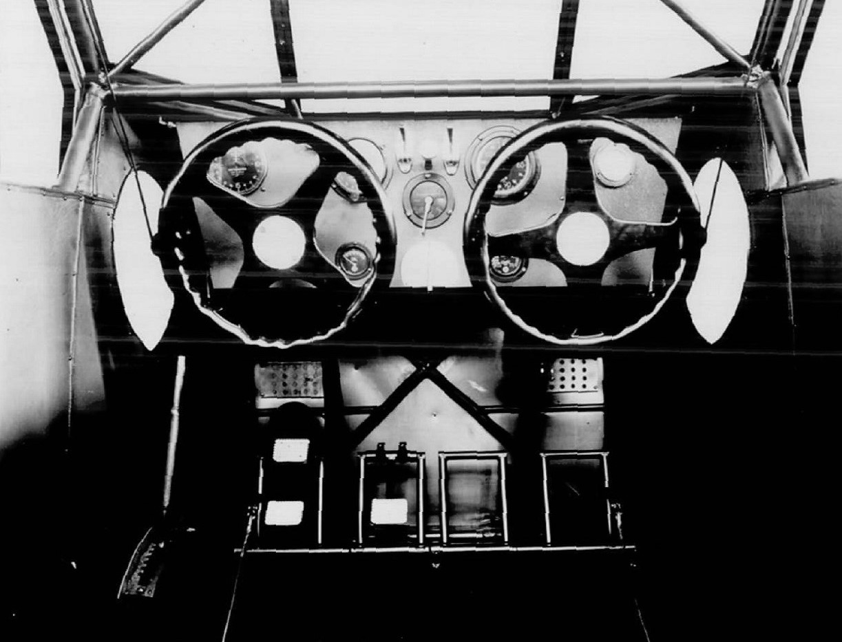 Stinson SM-1 photo from NACA Aircraft Circular No.60